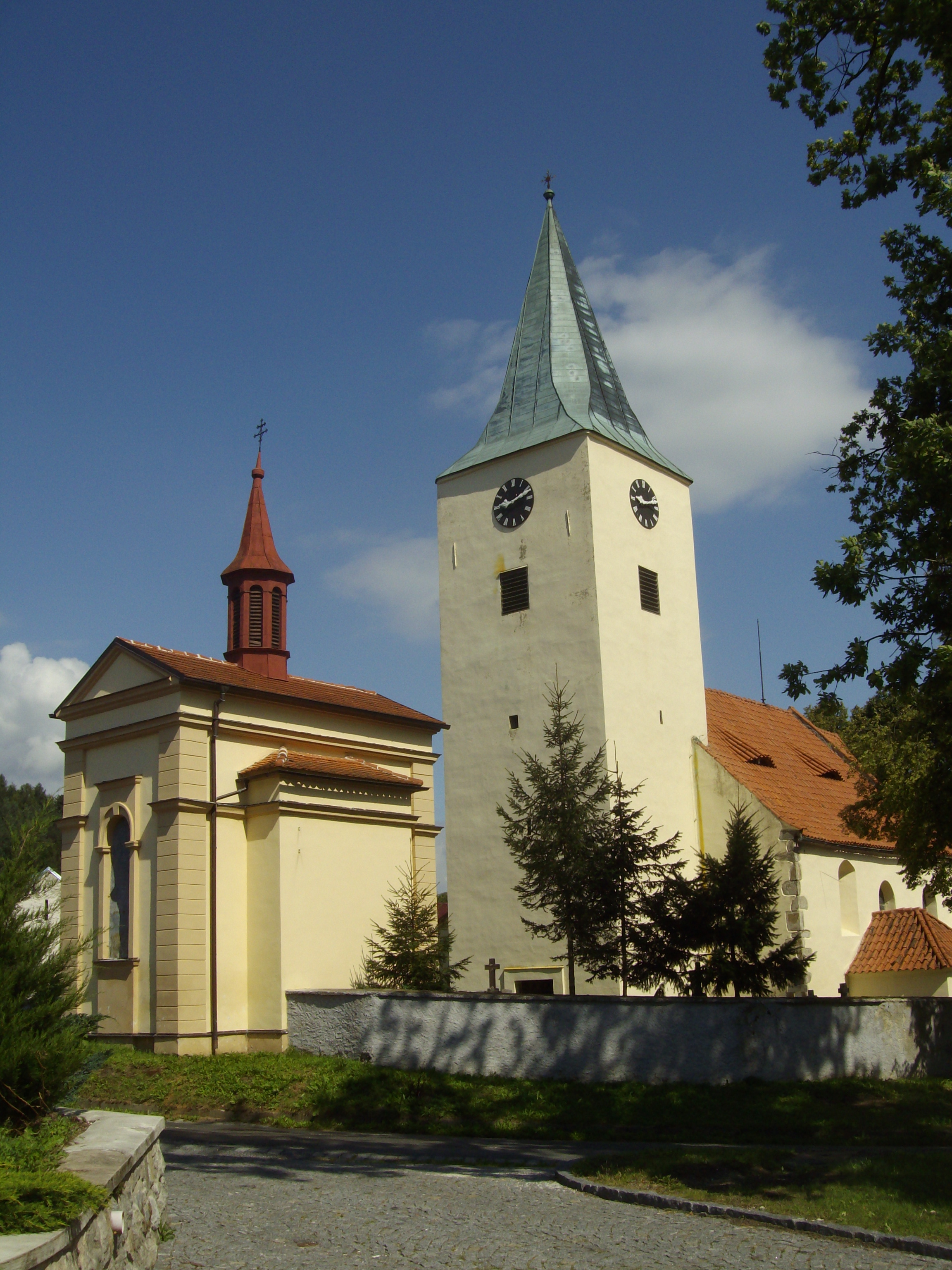 Village of Budetice - Church of St Peter & Paul Česky: Budětice - kostel sv. Petra a Pavla